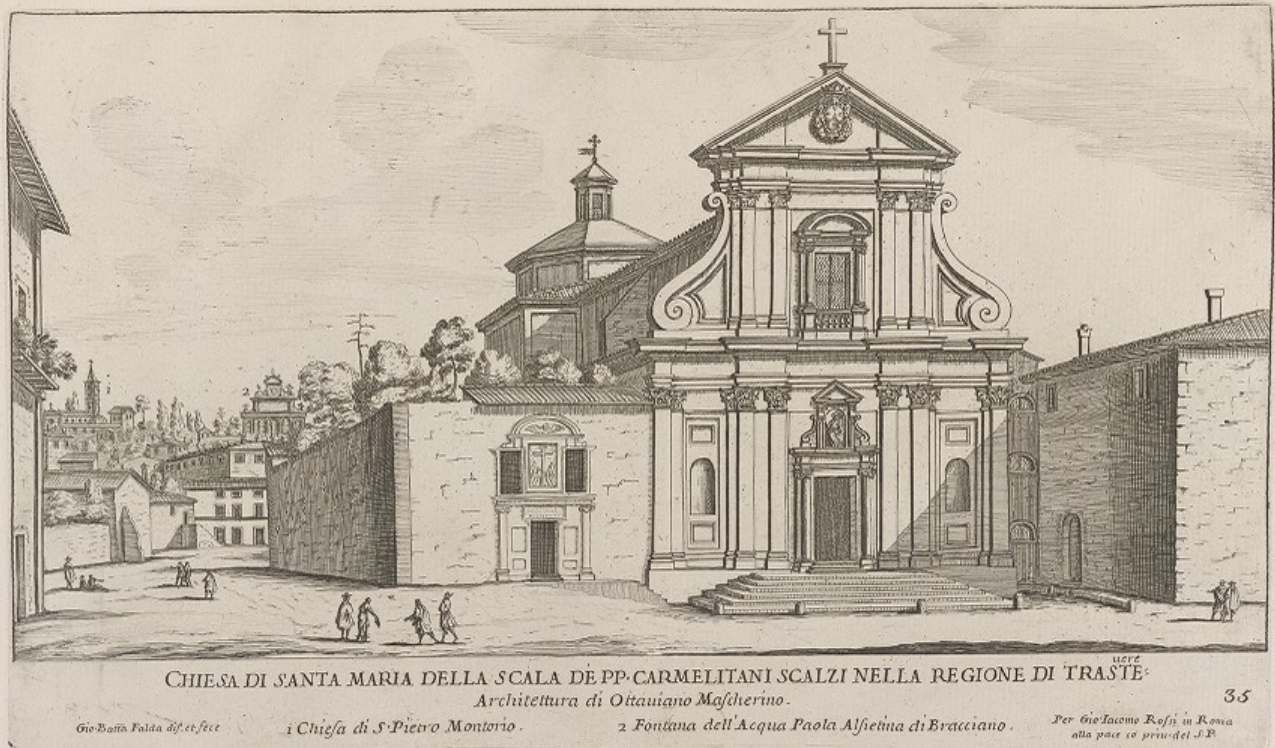 View of the Church of Santa Maria della Scala. Includes a view of the Church of San Pietro in Montorio (1 in image), and the Fontana dell'Acqua Paola on Janiculum Hill (2 in image). Although not mentioned, Francesco da Volterra also worked on the design of this church. The water for the Fontana Paolo was thought at this time to have come from the Aqua Alsietina, but was actually from the Aqua Traiana.